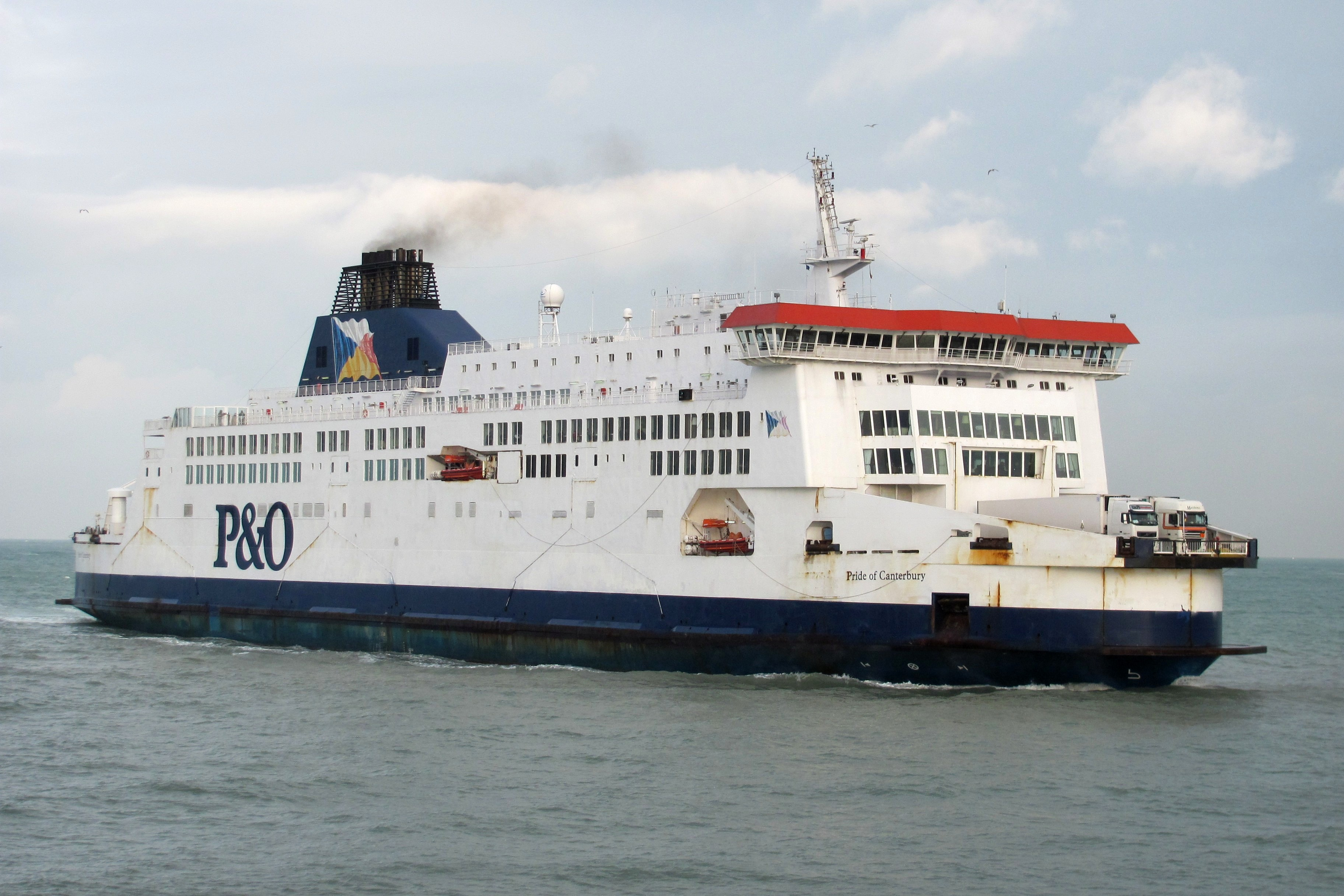 P&O Pride of Canterbury entering the port of Calais.